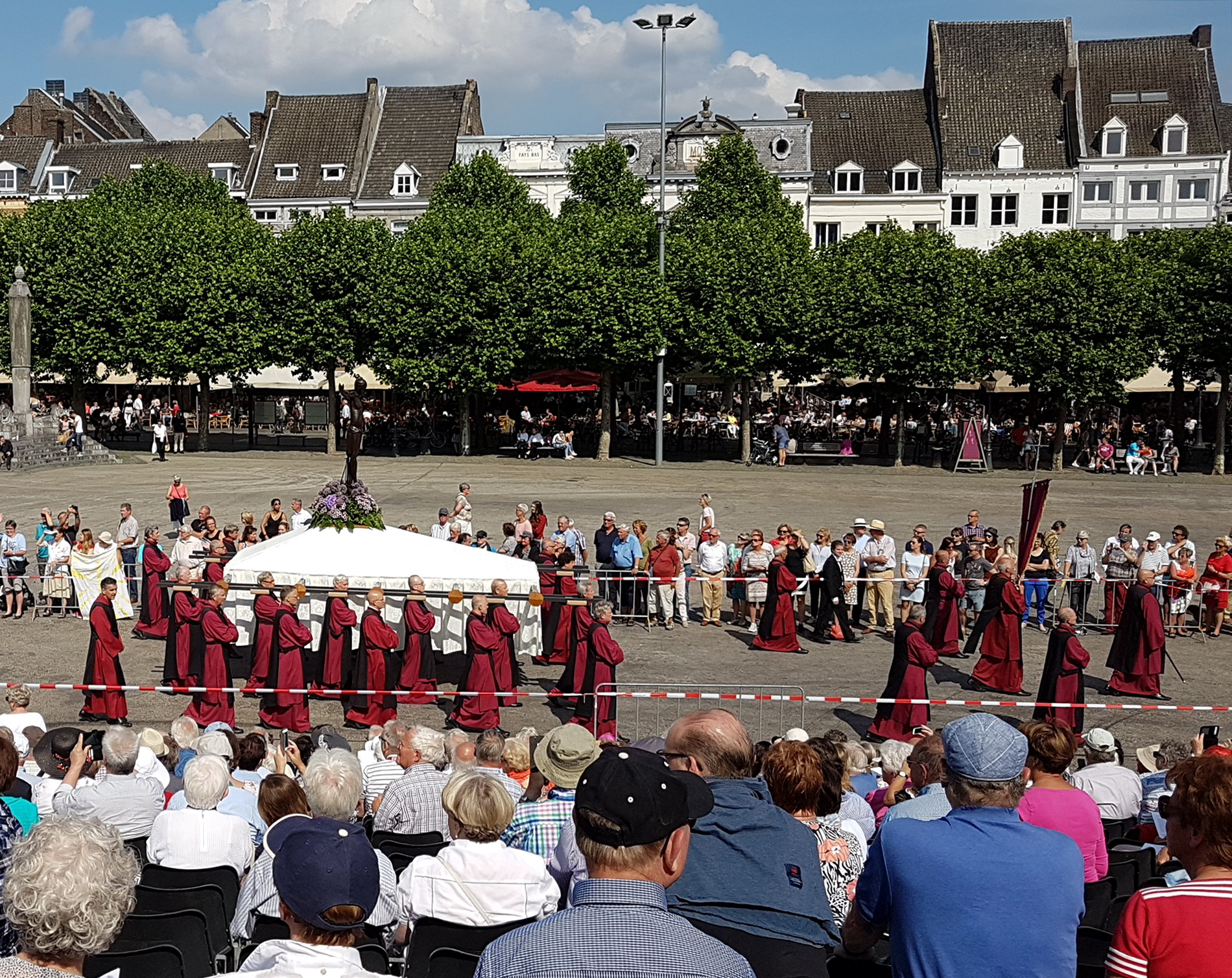 View of a historic religious procession during the 2018 Heiligdomsvaart ("Relics Pilgrimage") in Maastricht, Netherlands. The history of this seven-yearly catholic pilgrimage goes back to the Middle Ages. The first 'modern' version took place in 1874. On both Sundays of the 10-day festival, a procession is held in which the main relics of the town and other devotional objects are exhibited. This photo was taken from the spectator stand in Vrijthof square during the (second) procession on 3 June 2018. This particular group is the Confraternity of the Holy Cross from the Maastricht neighbourhood of Wyck. Their main task is to carry and escort the so-called Black Christ of Wyck in processions. The 13th-century statue of Jesus on the cross is kept in the parish church of Saint Martin in Wyck. It is one of the so-called stadsdevoties, statues with special devotional significance in Maastricht.